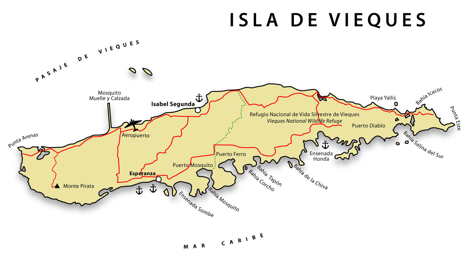 Non political map of Vieques Island